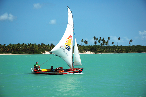 Barra de Cunhaú beach, Canguaretama, Rio Grande do Norte, Brazil.